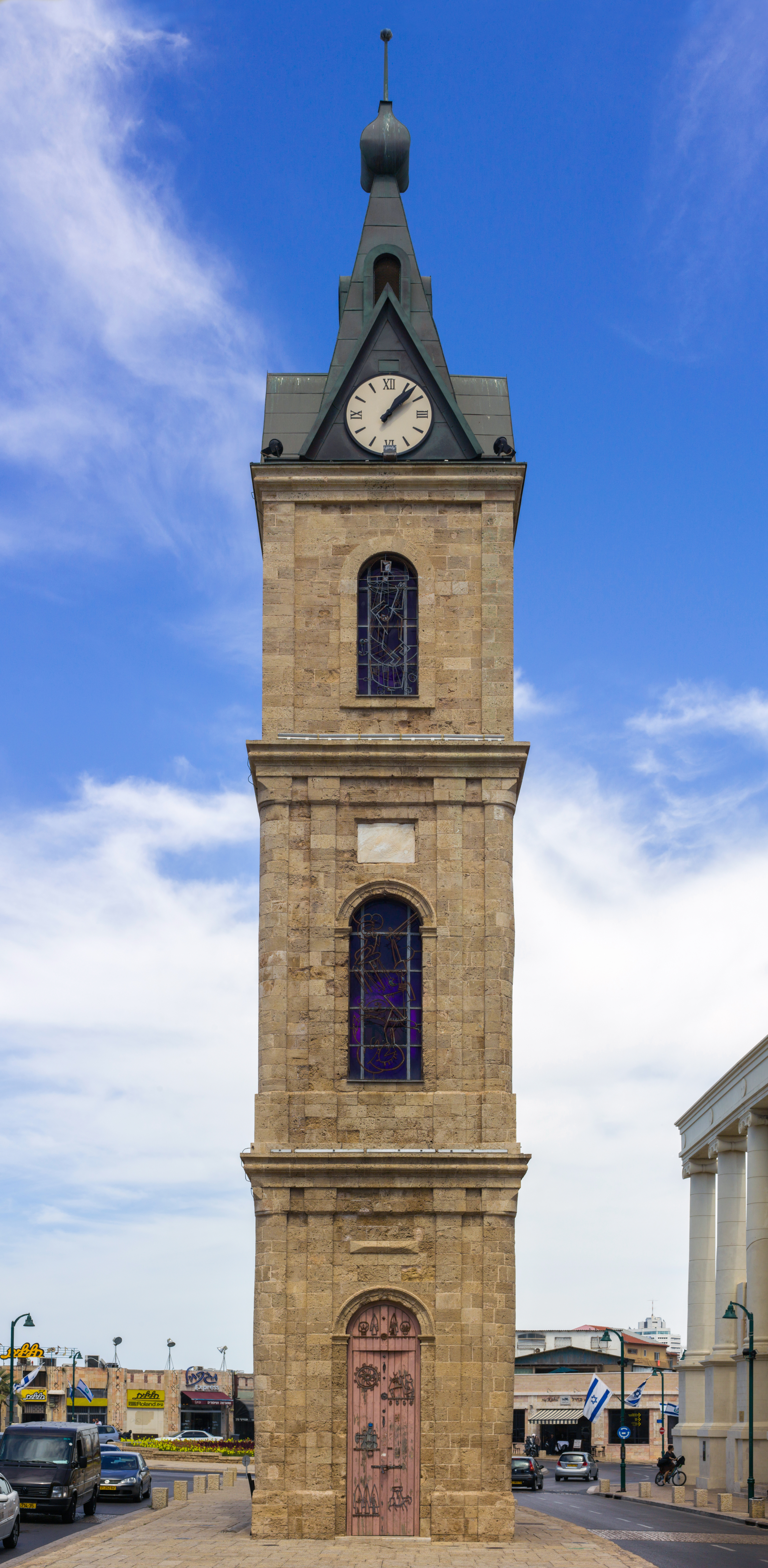 Jaffa Clock Tower (Hebrew: מגדל השעון יפו).